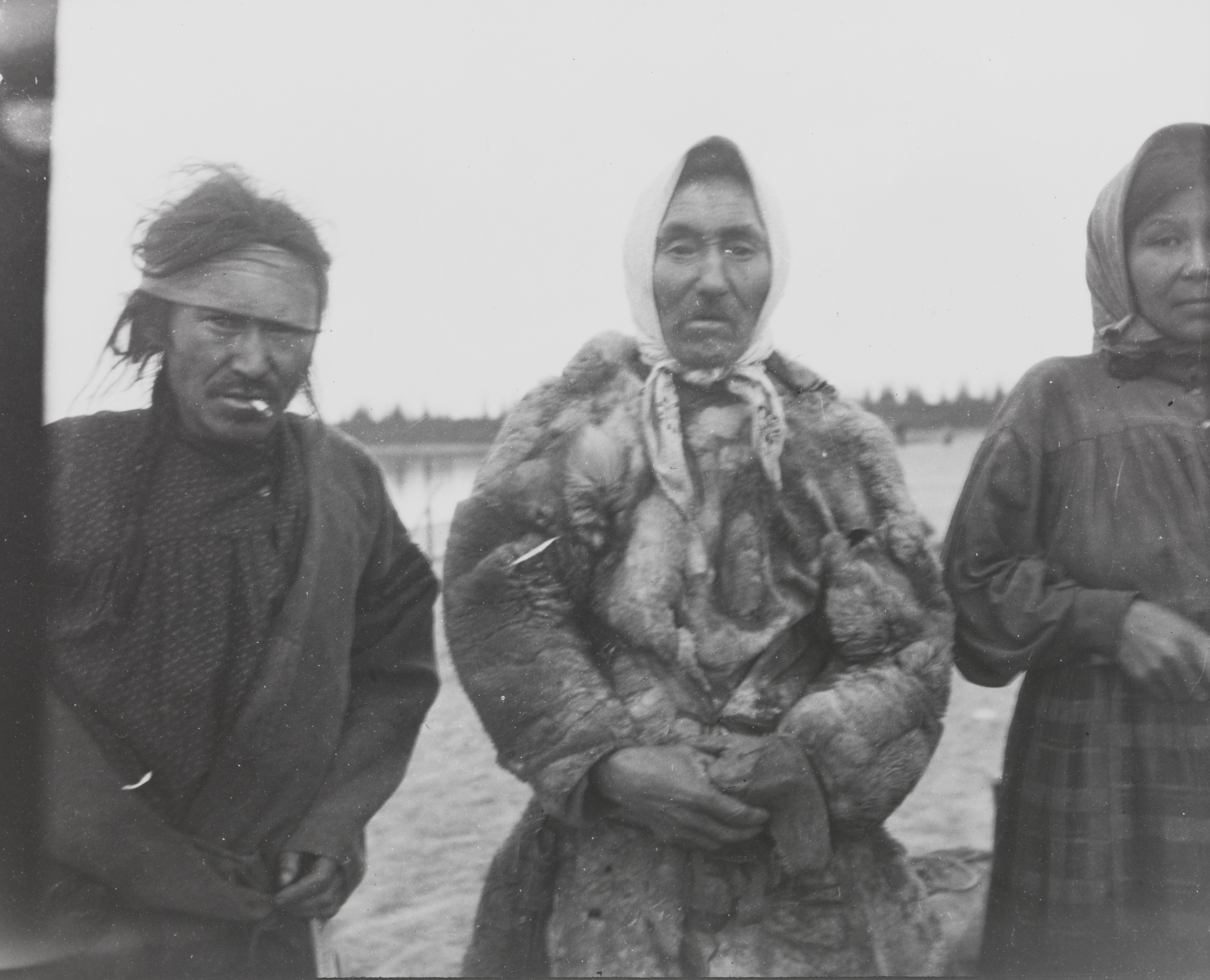 Evenki by the shore of the Yenisei. The old man in the middle is blind. One of the pictures from the journey to Siberia between Aug. 2 and Oct. 26, 1913. Fridtjof Nansen continued his trans-Siberian journey in a small steamer up the Yenisei River to Yeniseisk.